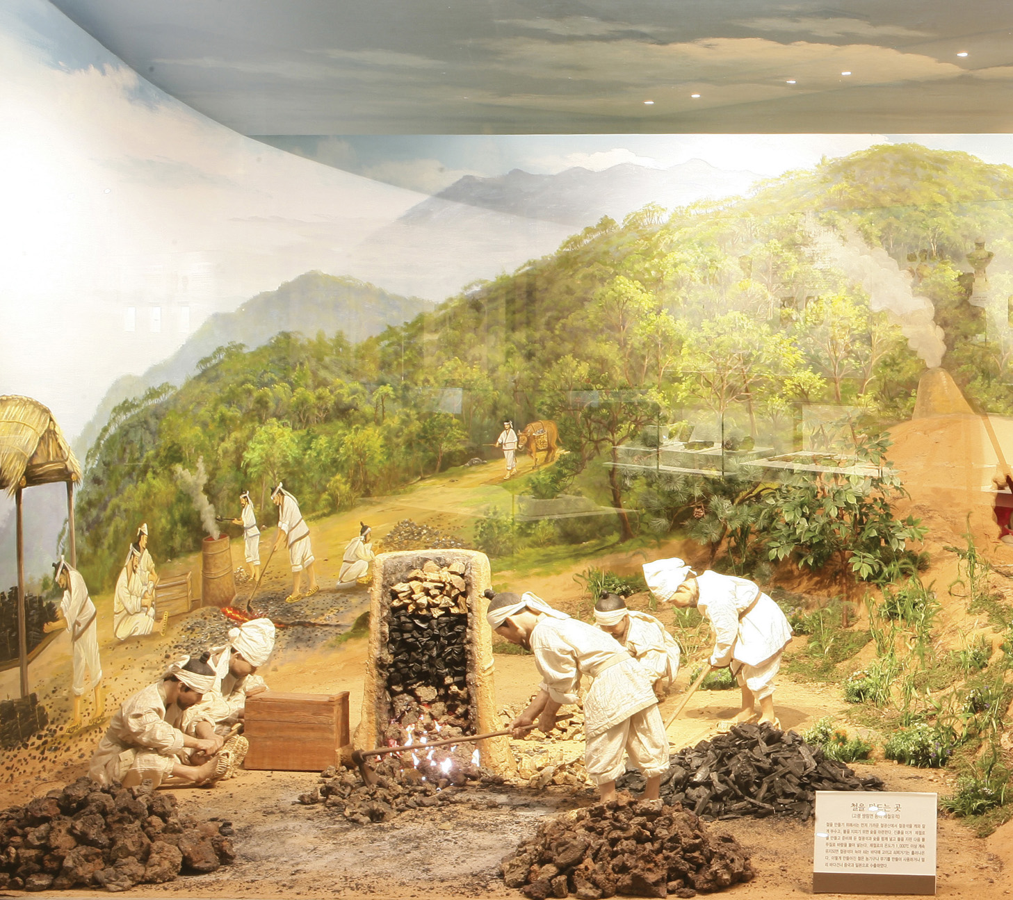 Refinery of Gaya confederacy in Museum of Daegaya (Goryeong, South Korea) Gaya enjoyed its prosperity by its abundant steel and trade from northern Han commandery to Wa people.(Japan)